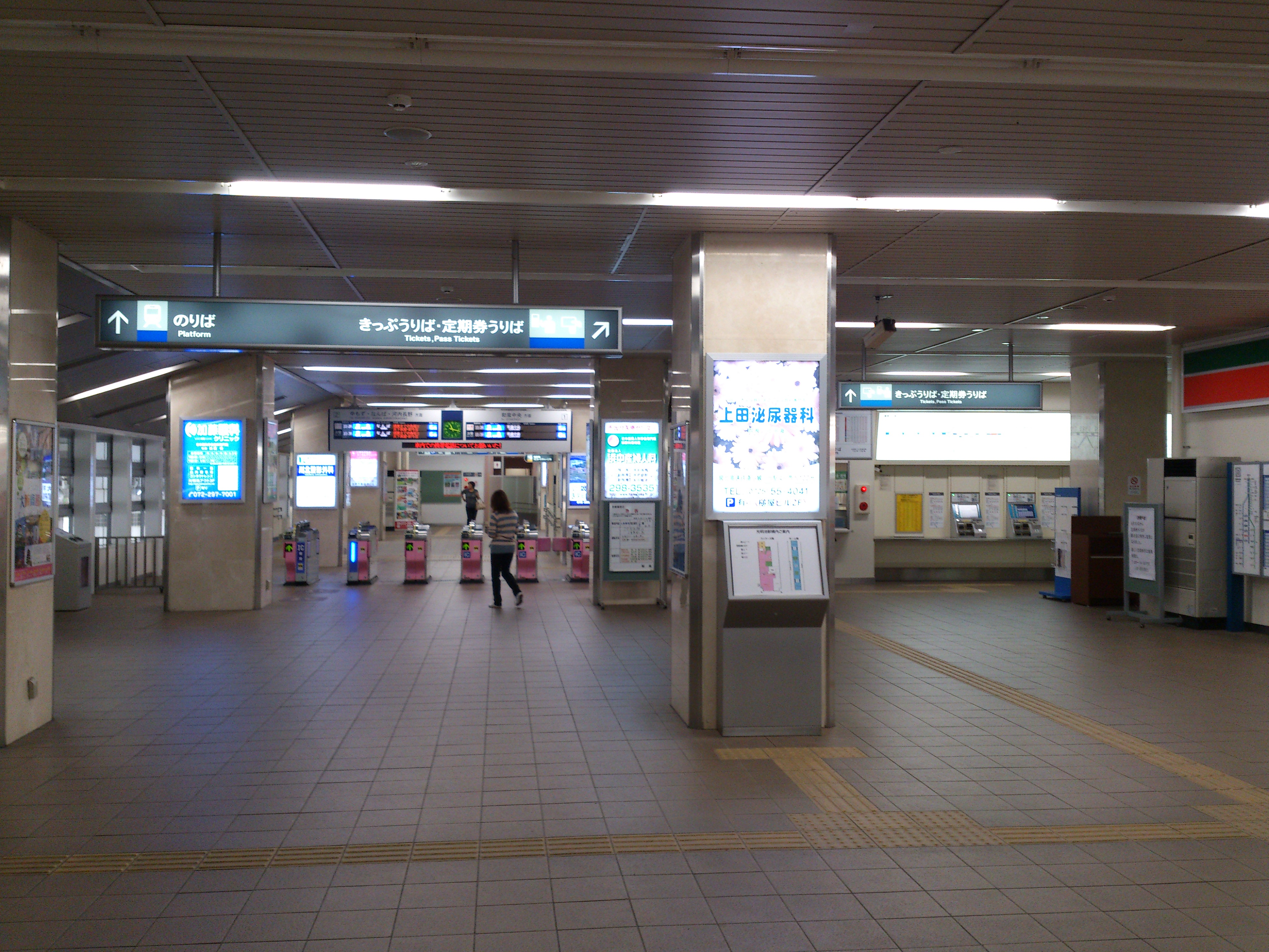 Kōmyōike Station of Semboku Rapid Railway